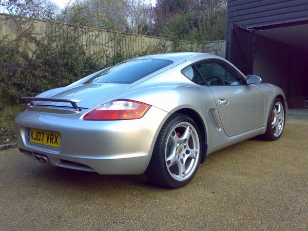 Silver Porsche Cayman S with Spoiler